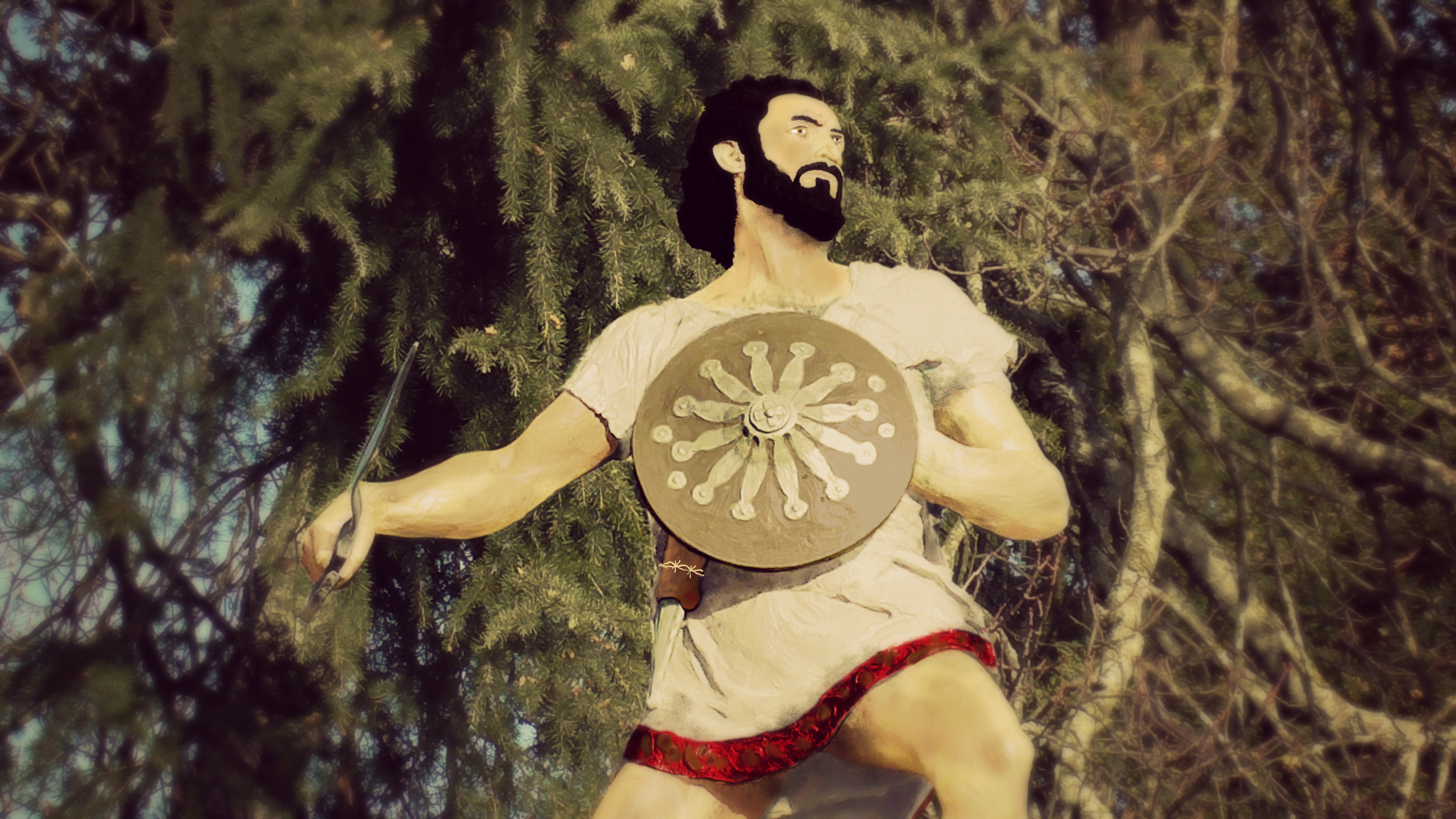 Photograph Viriathus Statue, located in Viseu (Portugal), edited in photoshop for better sense of your body.